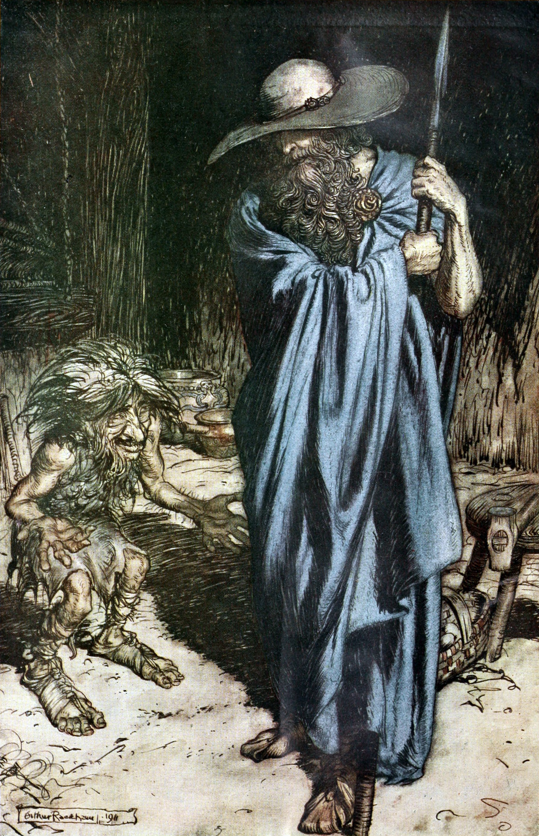 Mime and the Wanderer